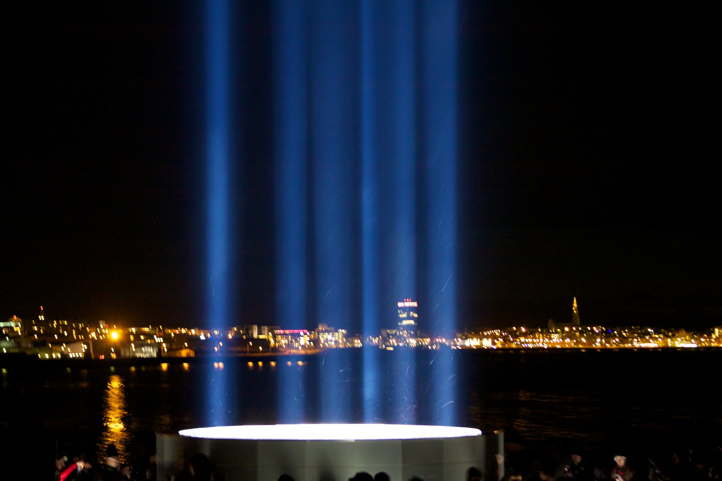 Imagine Peace. The lighting of the Peace Tower in Reykjavik. So amazing to be there. Happy birthday John.